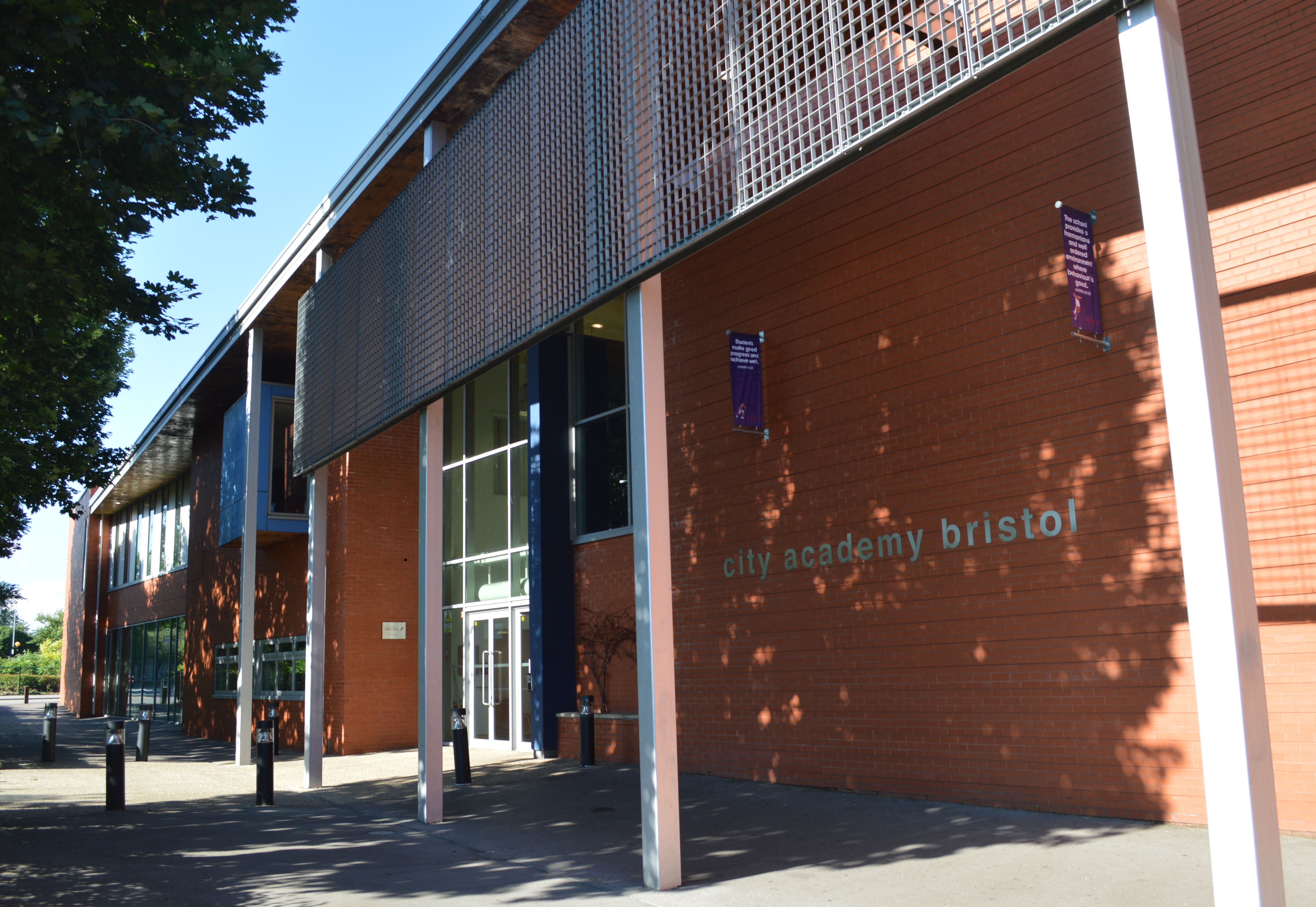 The main building frontage of The City Academy, Bristol.